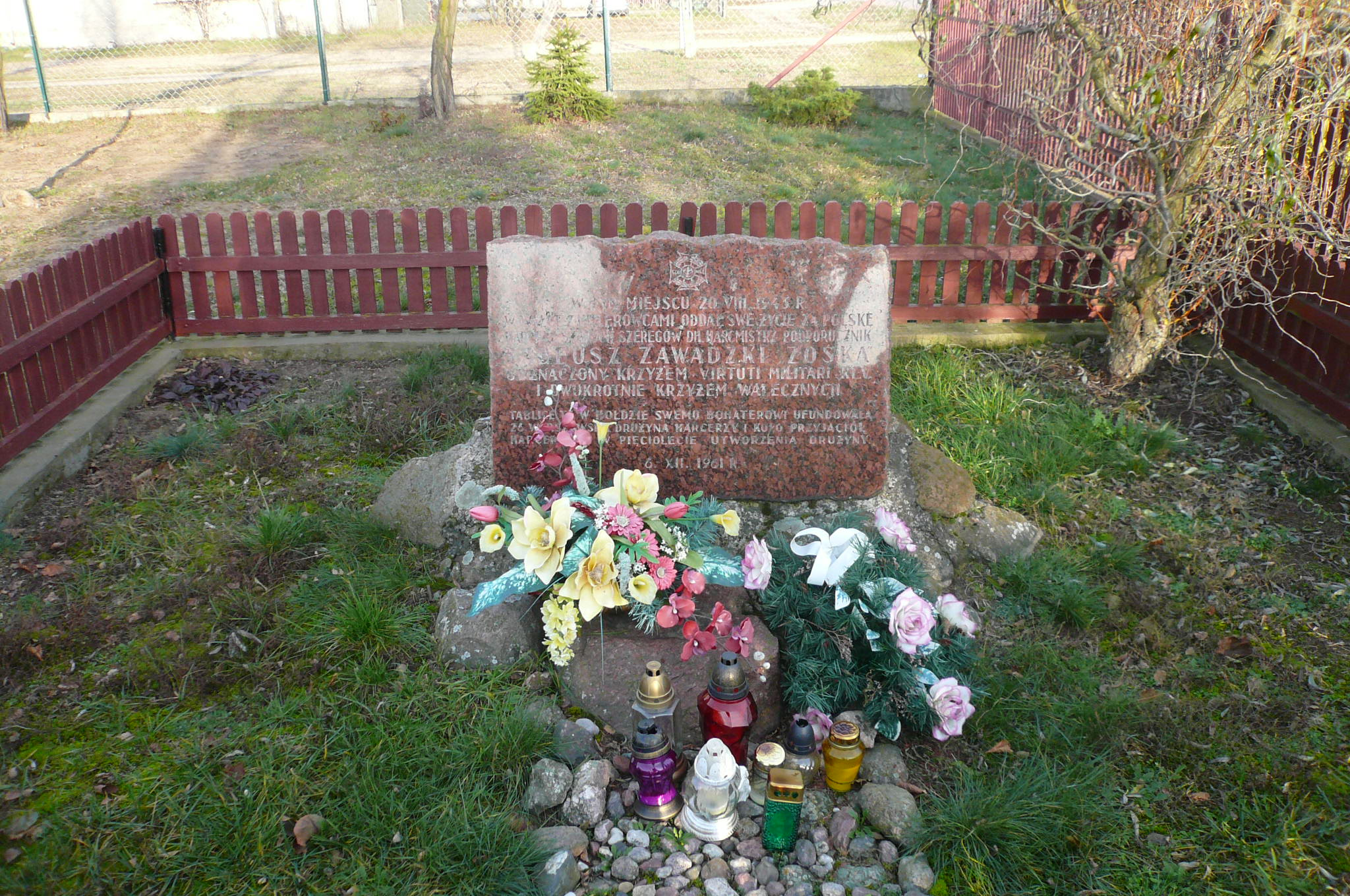 The plaque in Sieczychy, commemorating death of Tadeusz Zawadzki "Zośka" in sabotage mission of scout Assault Groups against German Grenzschutz in 1943